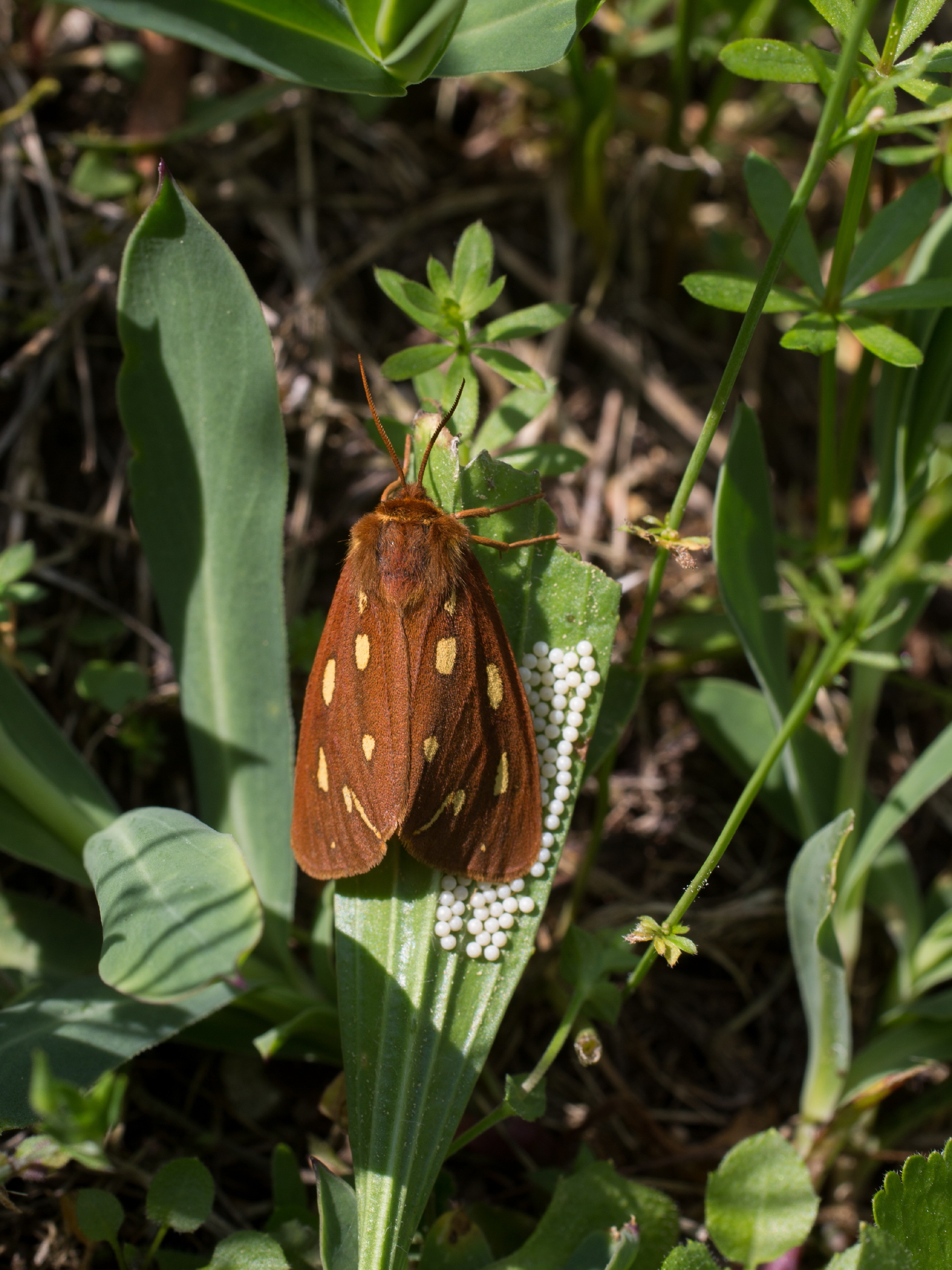 Brown tiger moth (Hyphoraia aulica), oviposition, near Graz, Austria